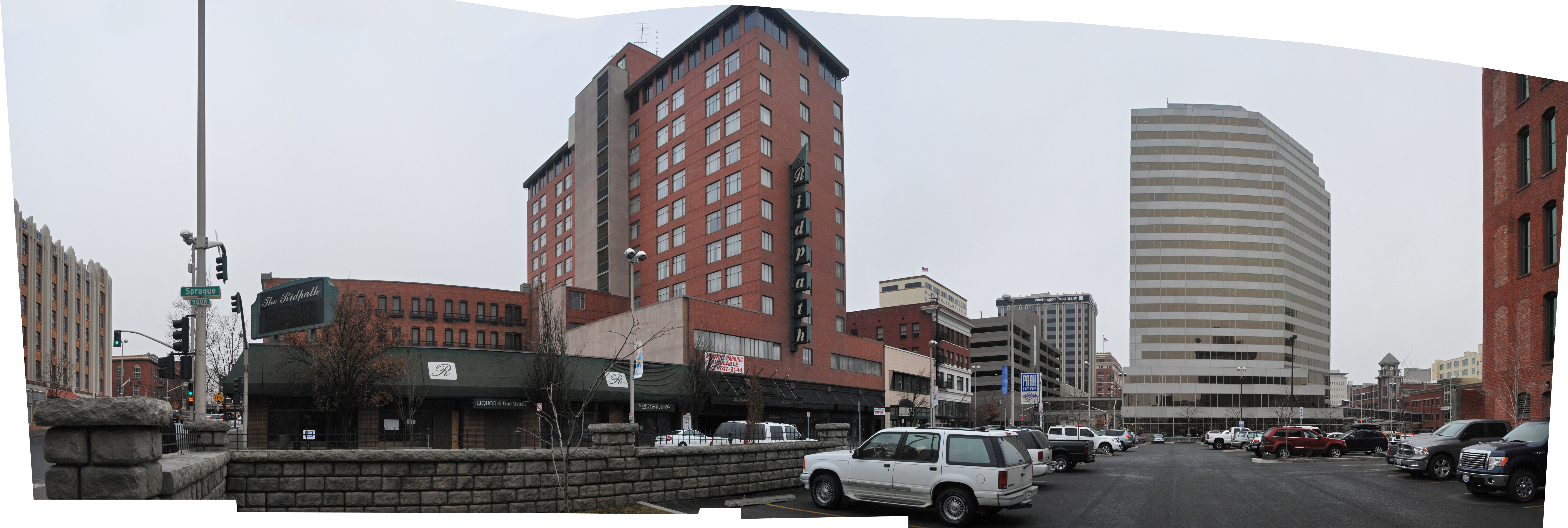 Panorama of the Sprague Avenue corridor in front of the Ridpath Hotel.